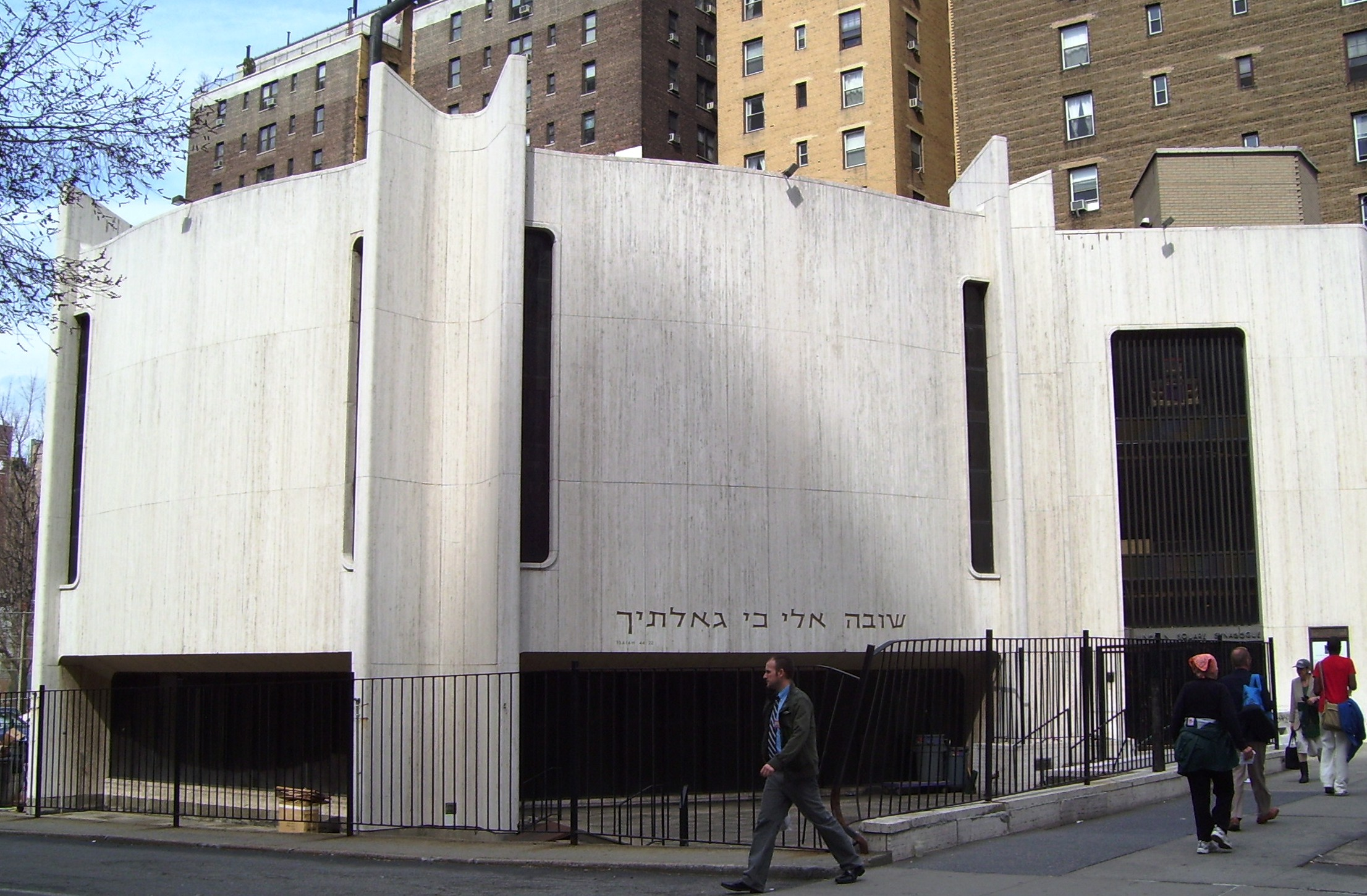 The Lincoln Square Synagogue at 200 Amsterdam Avenue on the corner of West 69th Street in the Lincoln Square neighborhood of Manhattan, New York City, was built in 1970 and designed by Hausman & Rosenberg. The Orthodox congregation was founded in 1964. (Source: From Abyssinian to Zion (2004))